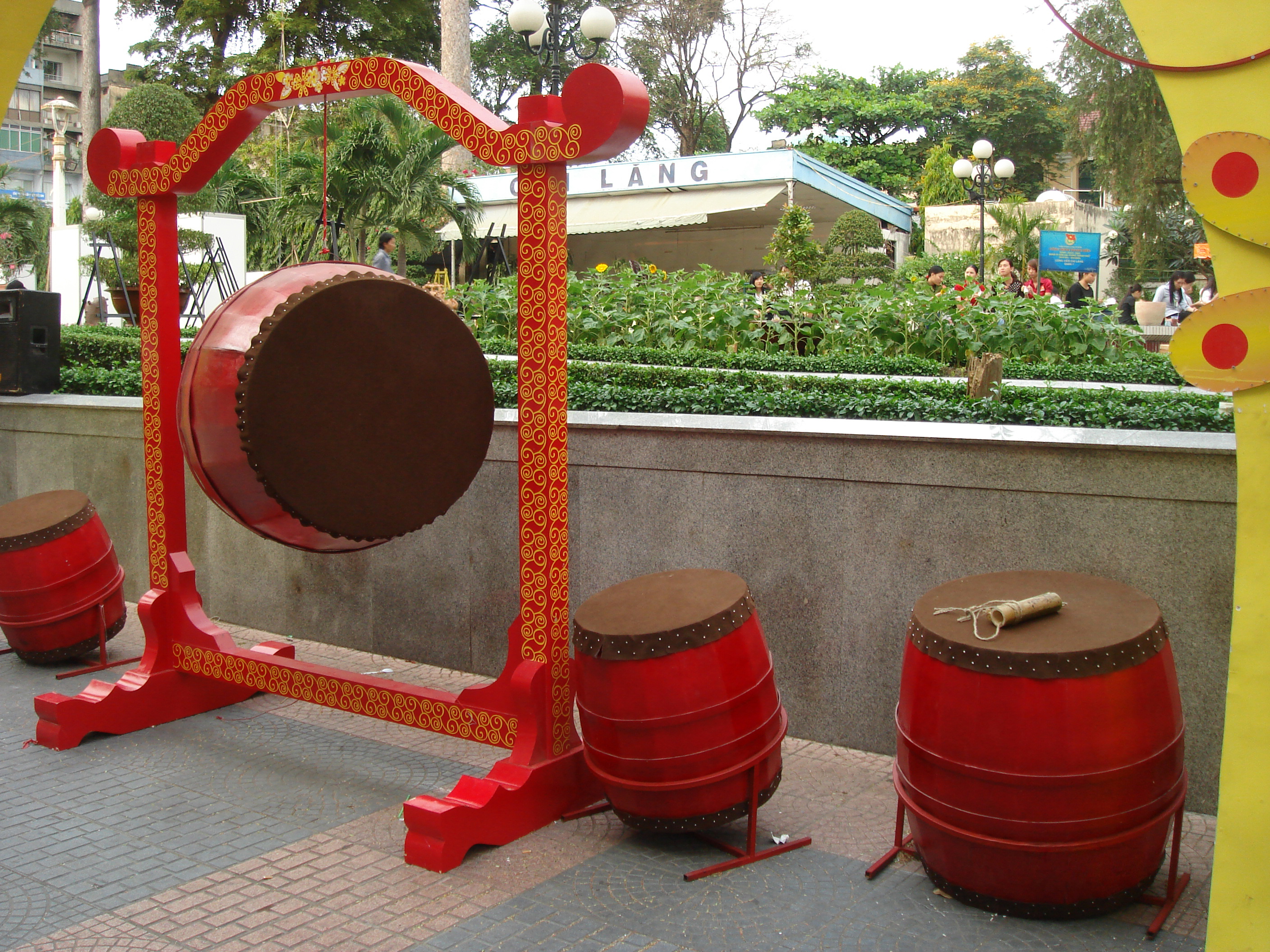 Tanggu drums in Saigon, Vietnam, prepared for the celebration of the Chinese new year.